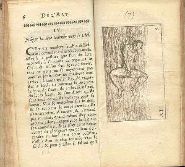 Page and illustration from "L'Art de Nager" (1696) by Melchidésech Thévenot (1620-1692)